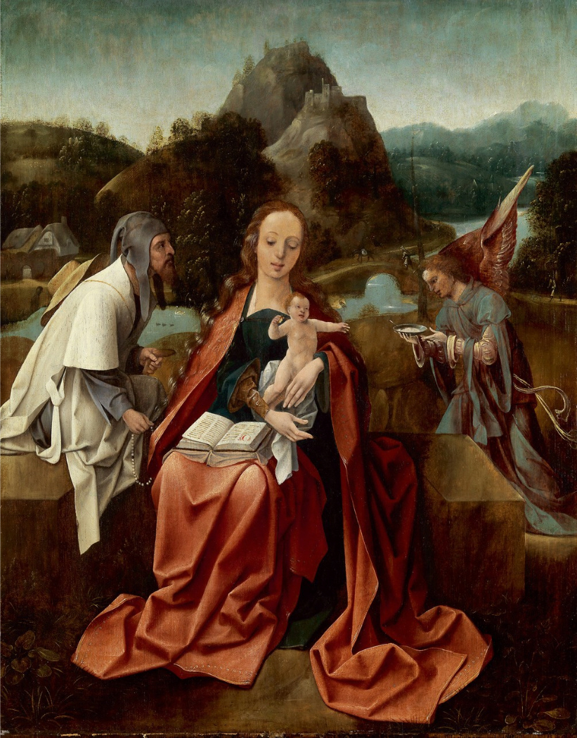 Madonna and Child with a pilgrim and an angel